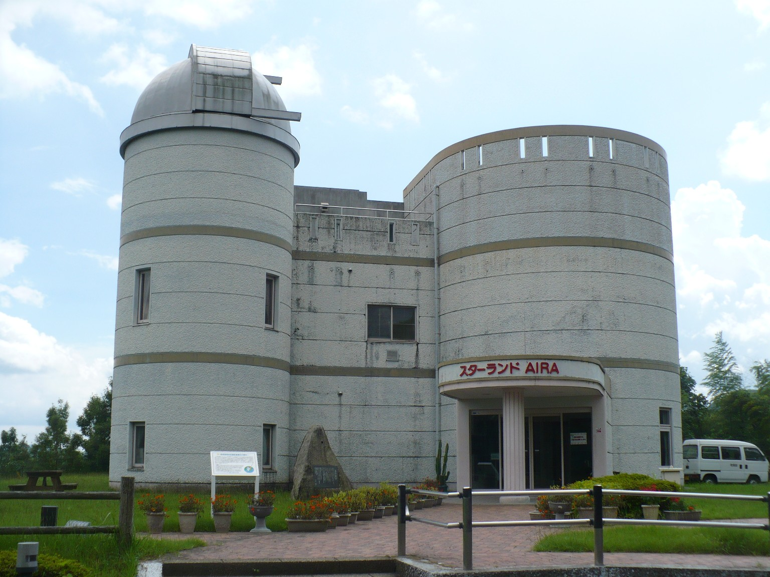 "Starland AIRA" observatory at Aira, Kagoshima, Japan.